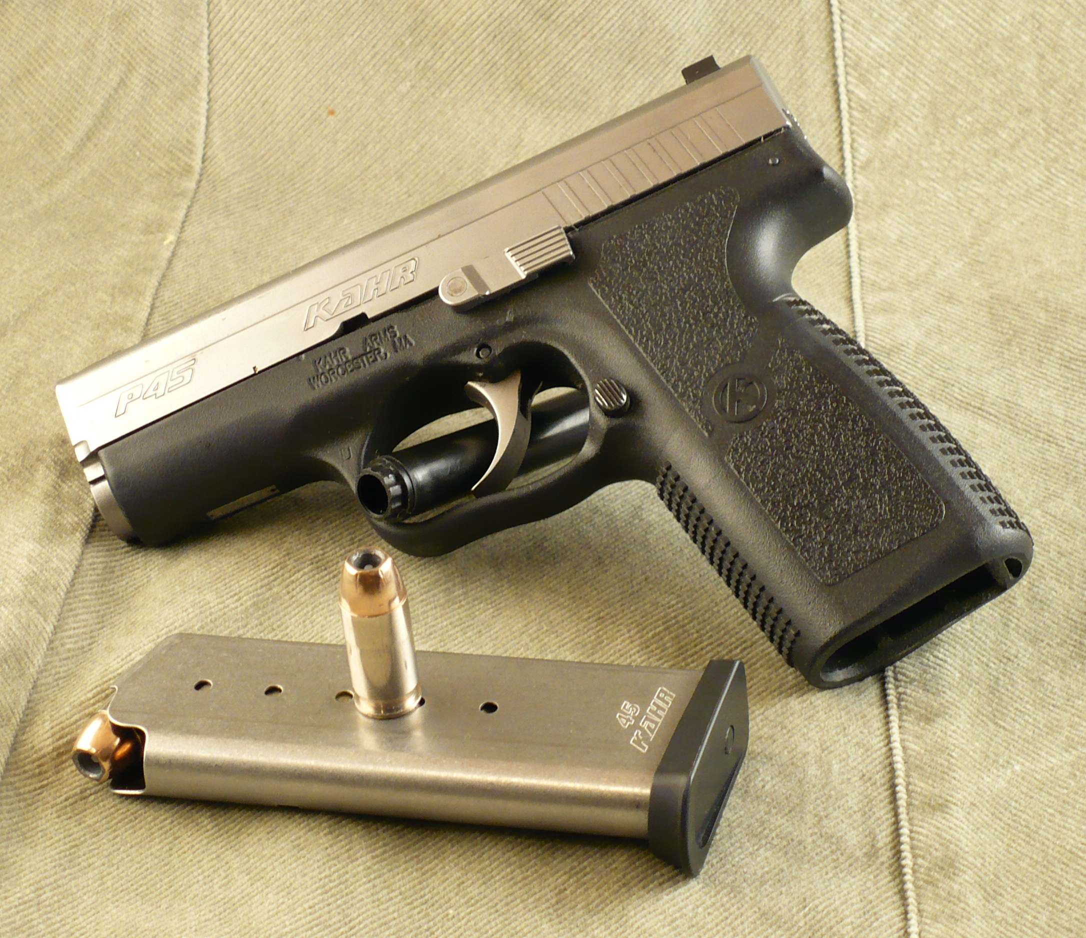 Manufacturer Kahr Arms, Model P45, Action Semi-automatic, Type Double Action Only, Size Compact, Caliber 45 ACP, Barrel Length 3.6", Frame/Material Polymer, Finish/Color Matte Stainless, Capacity 6Rd, Sights Fixed Sights